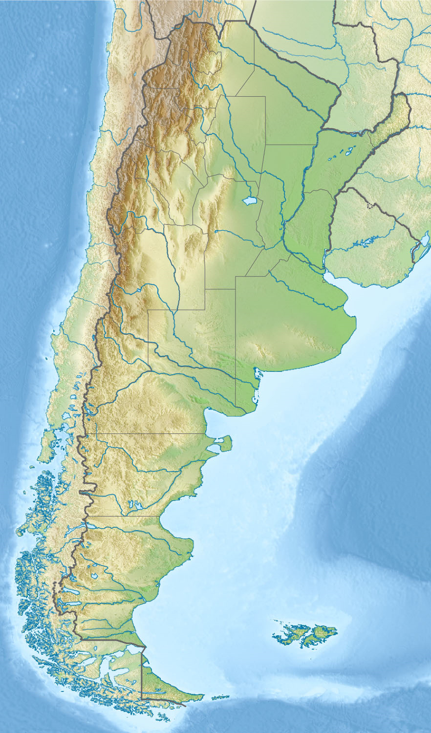 Location map of Argentina Equirectangular projection, N/S stretching 115 %. Geographic limits of the map: N: 21.0° S S: 56.5° S W: 76.5° W E: 52.5° W